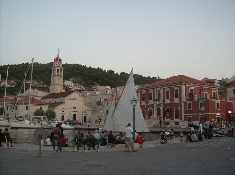 Town of Pučišća on the island of Brač, Croatia, Europe